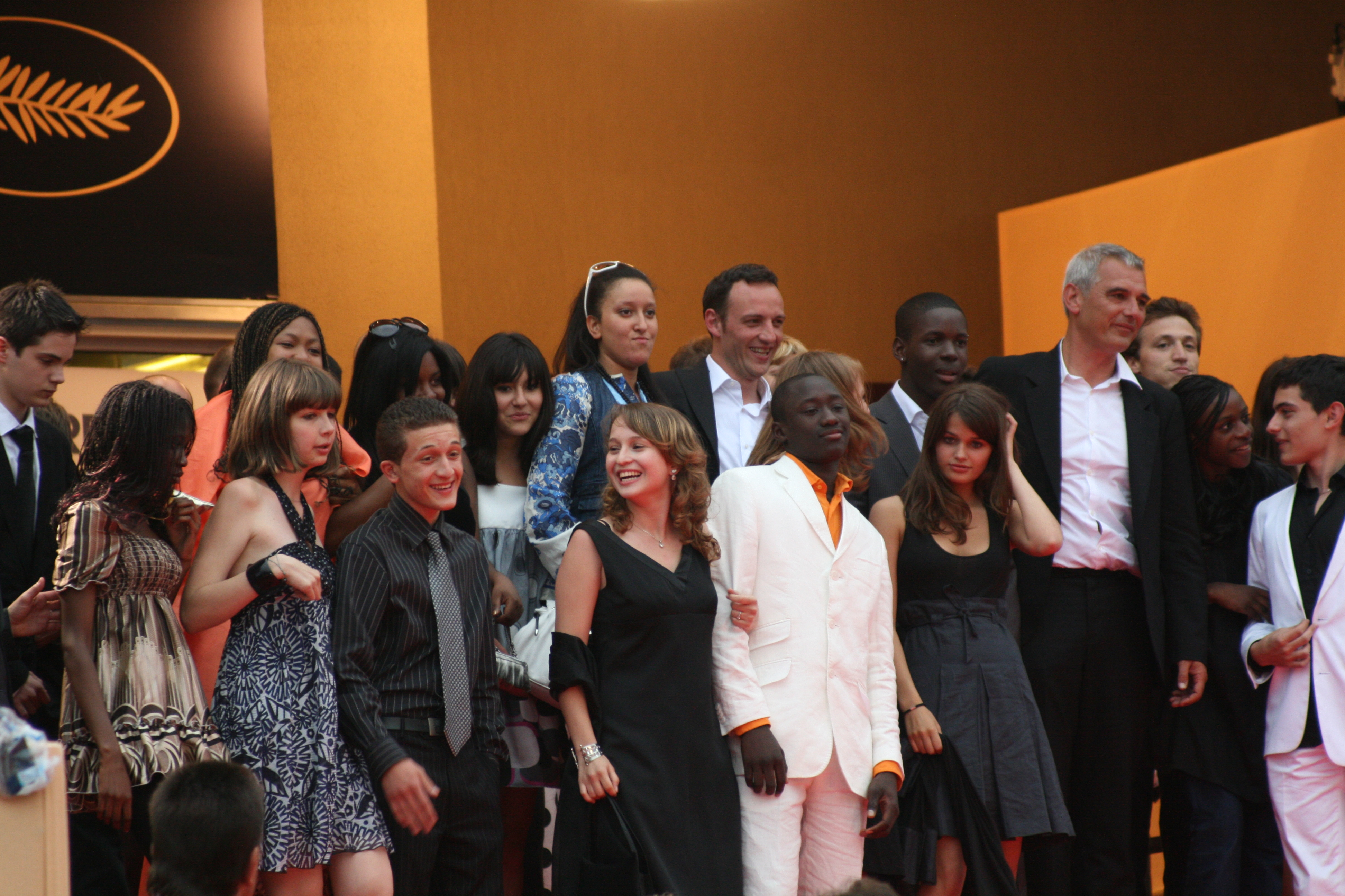 Actors of movie Entre les murs at Cannes Film Festival 2008.